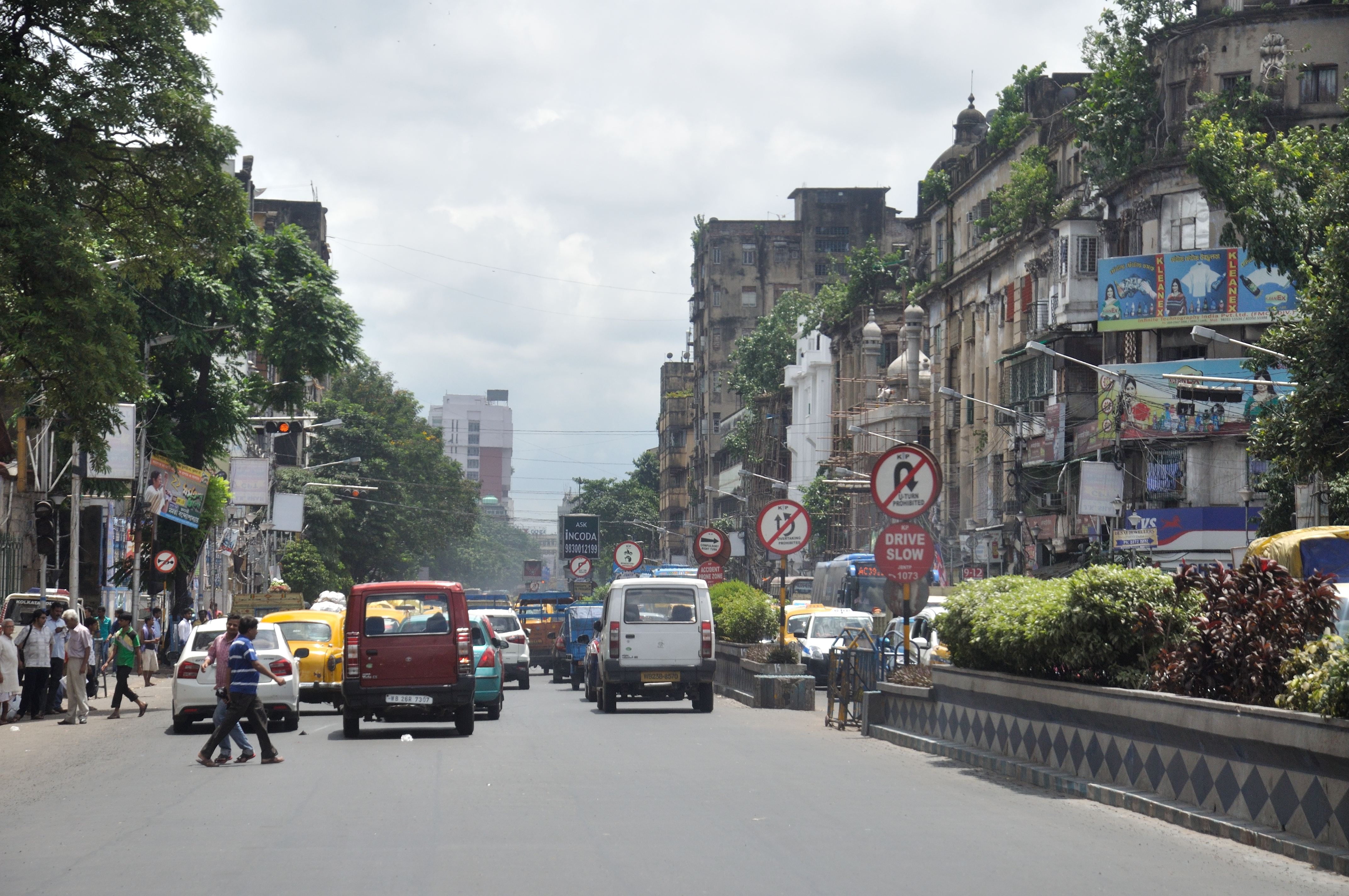 Photographed in Kolkata.